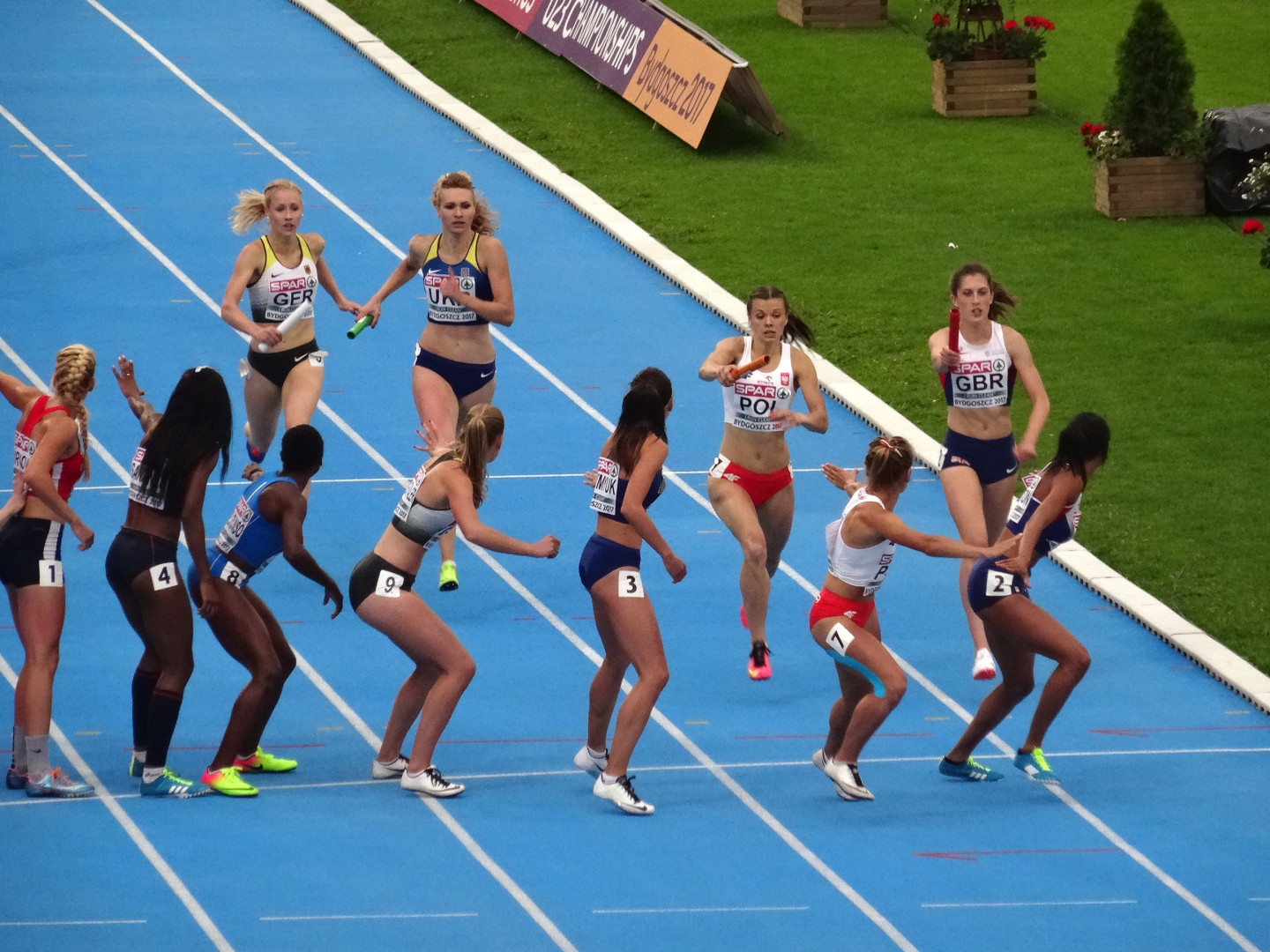 2017 European Athletics U23 Championships in Bydgoszcz Poland, 4x100m relay women final